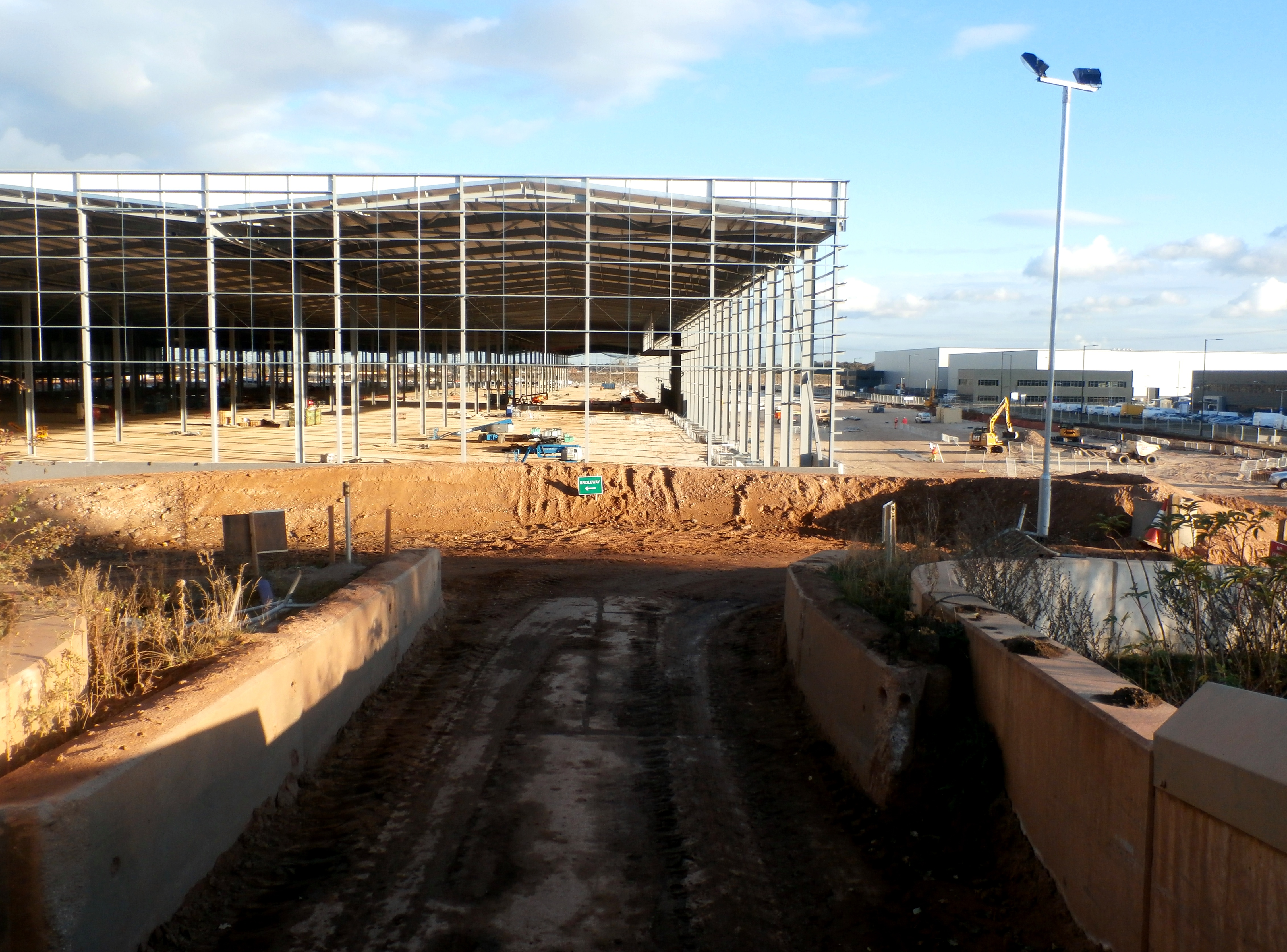 Construction at Doncaster I-Port